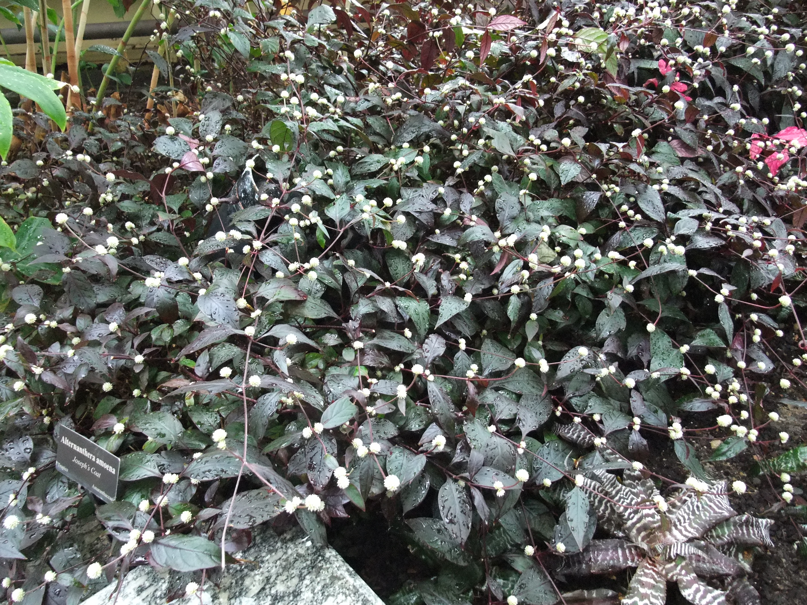 A photograph of Alternanthera amoena.